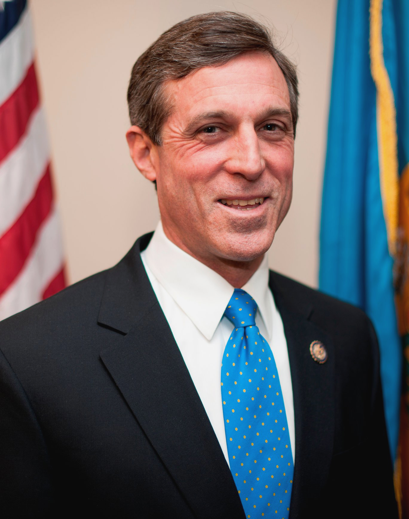 Official portrait of Congressman John C. Carney, Jr. (D-DE).